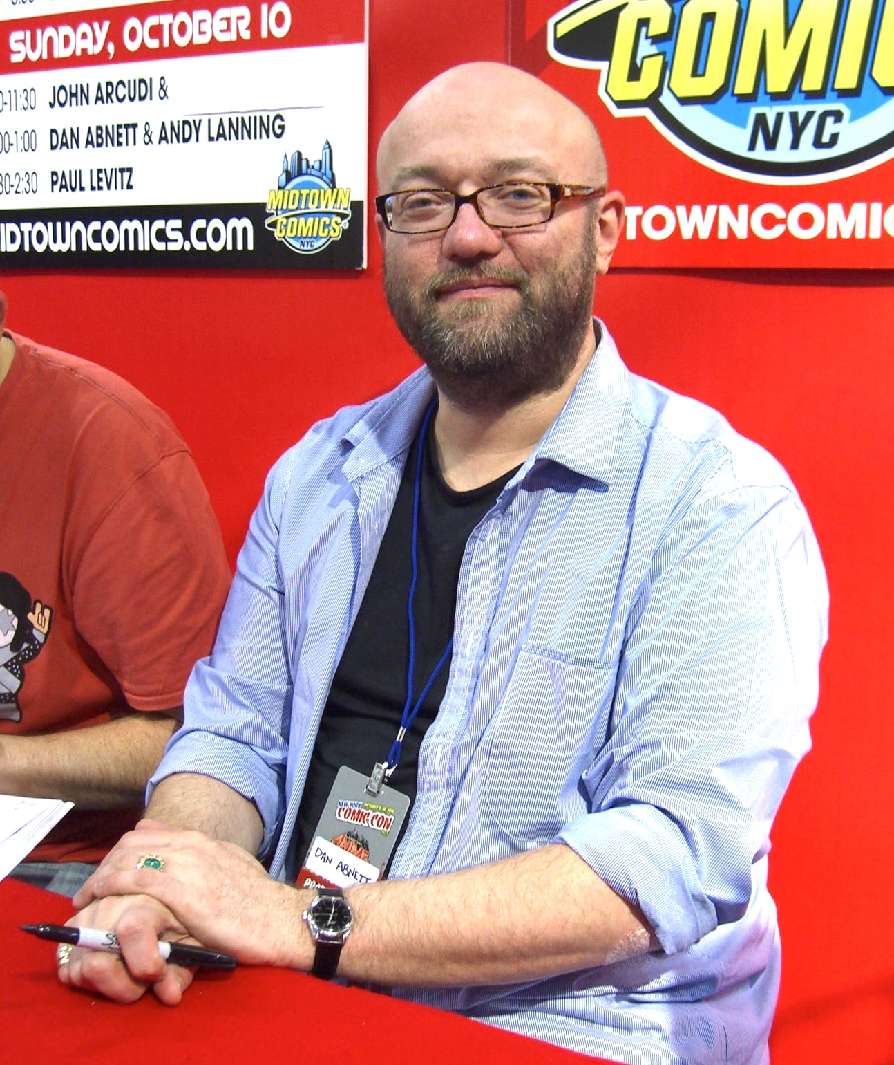 Comic book creator Dan Abnett, at the Midtown Comics booth at the New York Comic Convention in Manhattan, October 10, 2010. Photo by Luigi Novi. This photo may be used, modified and published for any purpose, only if a easily visible credit to the photographer is placed near the photo in each instance in which it is used. (See licensing information below.) Publication of this photo without this proper attribution constitute copyright infringement. For more information on my photos, you can contact me here.